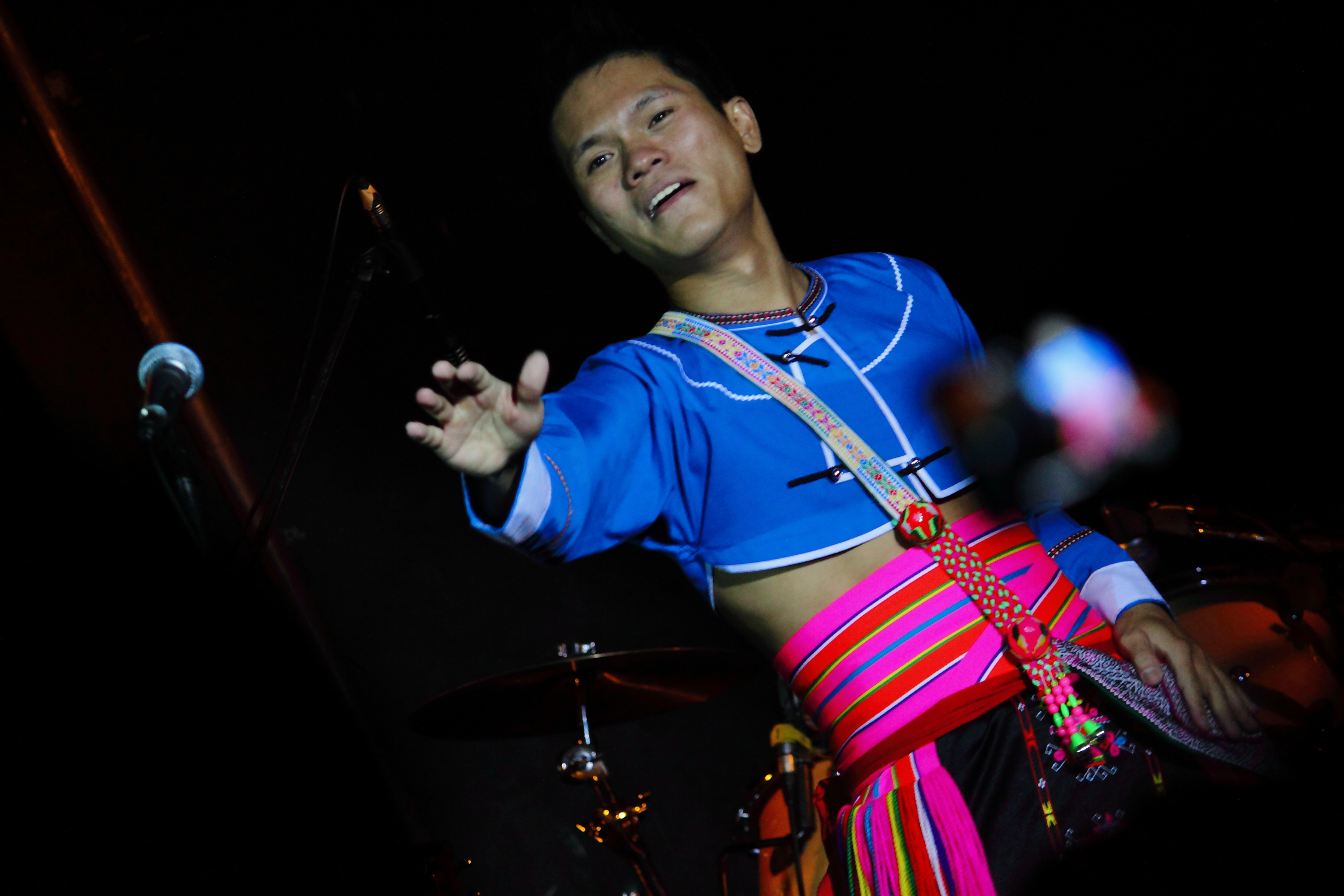 Suming Rupi at his album "Suming" release party in The Wall live house in Taipei Taiwan